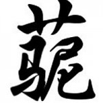 Image of a Chinese character invented by Netizens to depict the "Grass Mud Horse", one of the hoax animals from the Baidu 10 Mythical Creatures. The character is a fusion of three common characters '草', '泥' and '马', which translate to "Grass Mud Horse", yet represent the phrase "fuck your mom" in Mandarin, which has the same consonants and vowels but different tones.